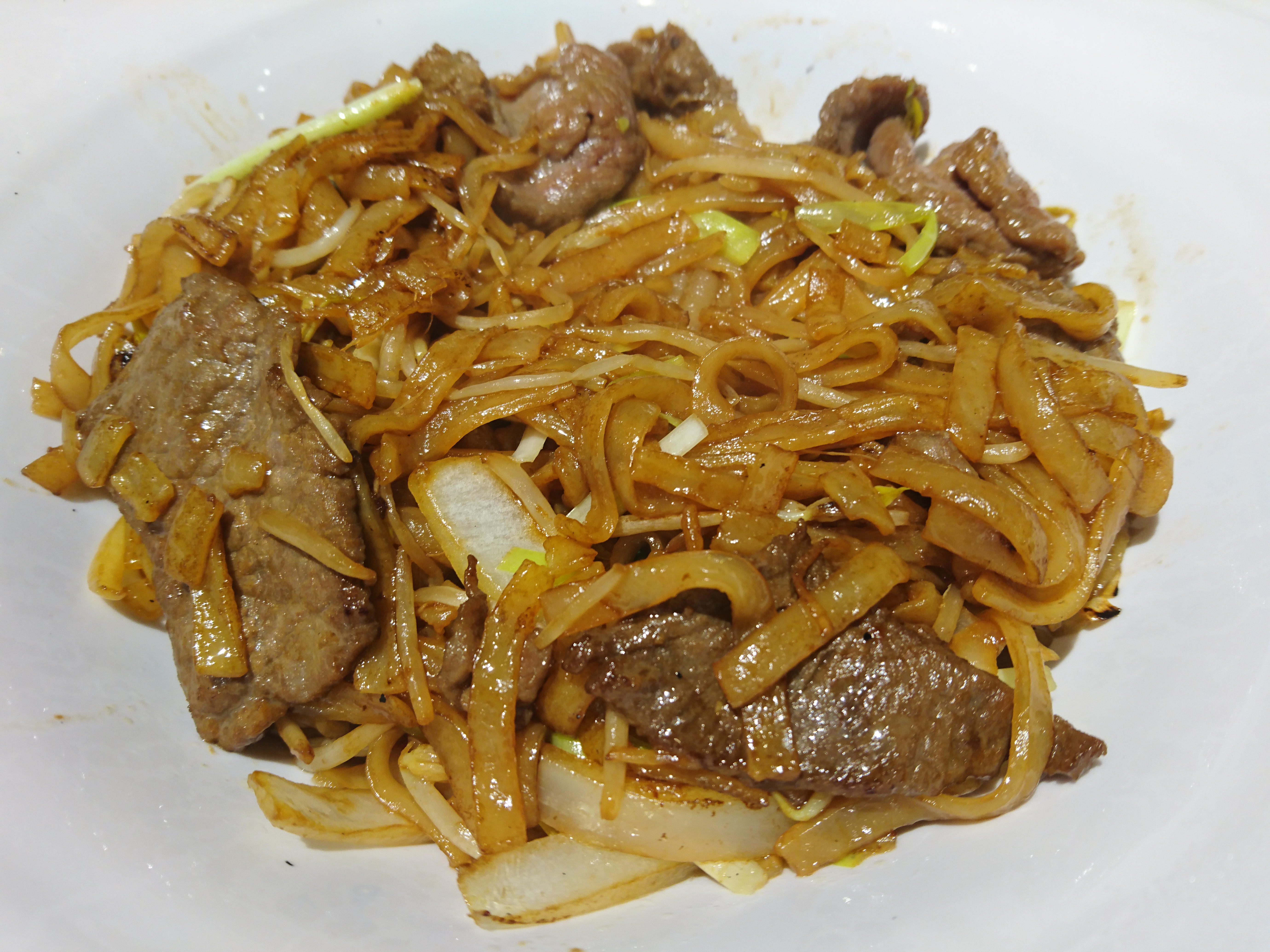 Dry-fried Beef Ho Fan